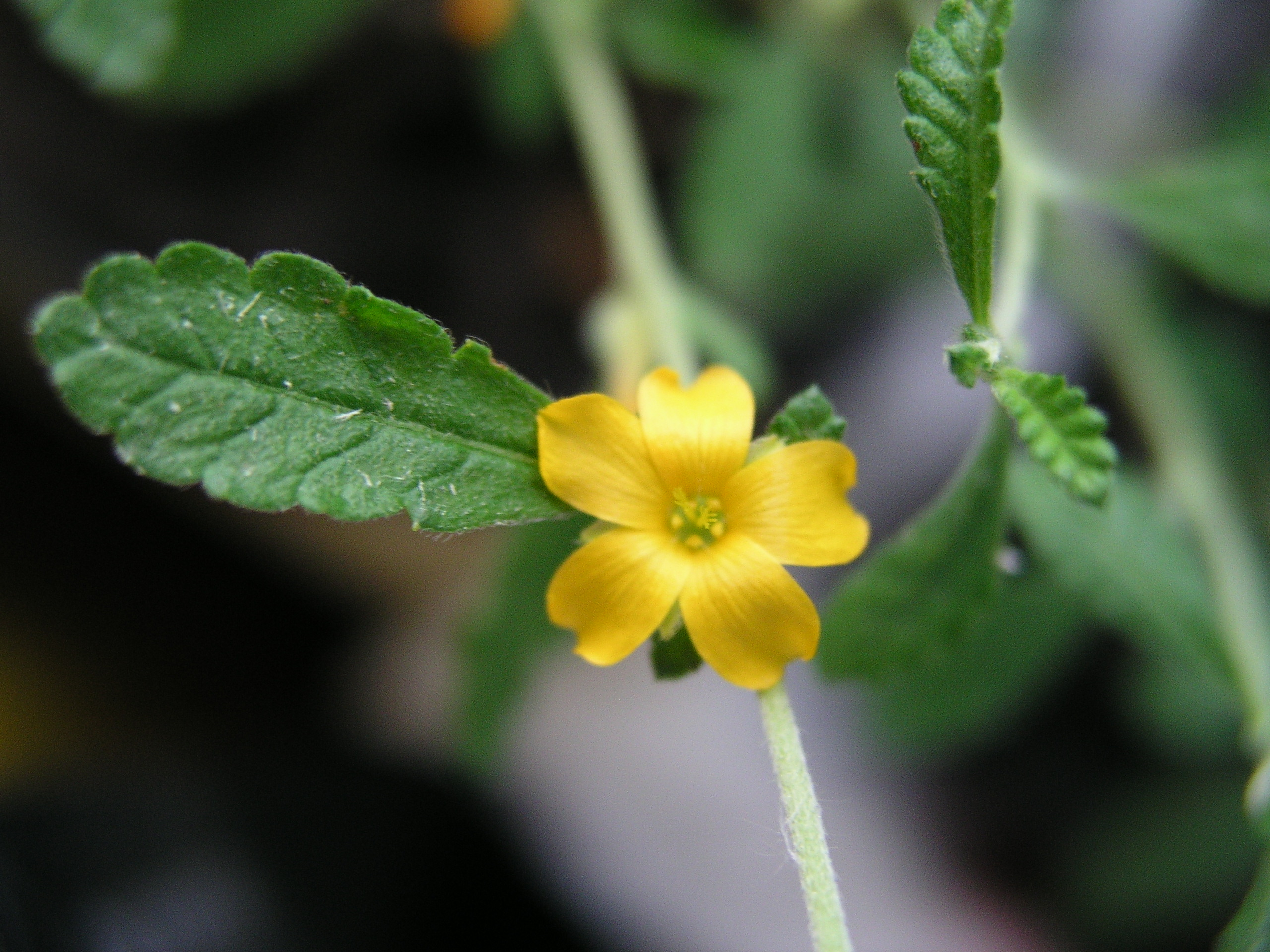 Species Turnera diffusa Genus Turnera Familia Turneraceae own work